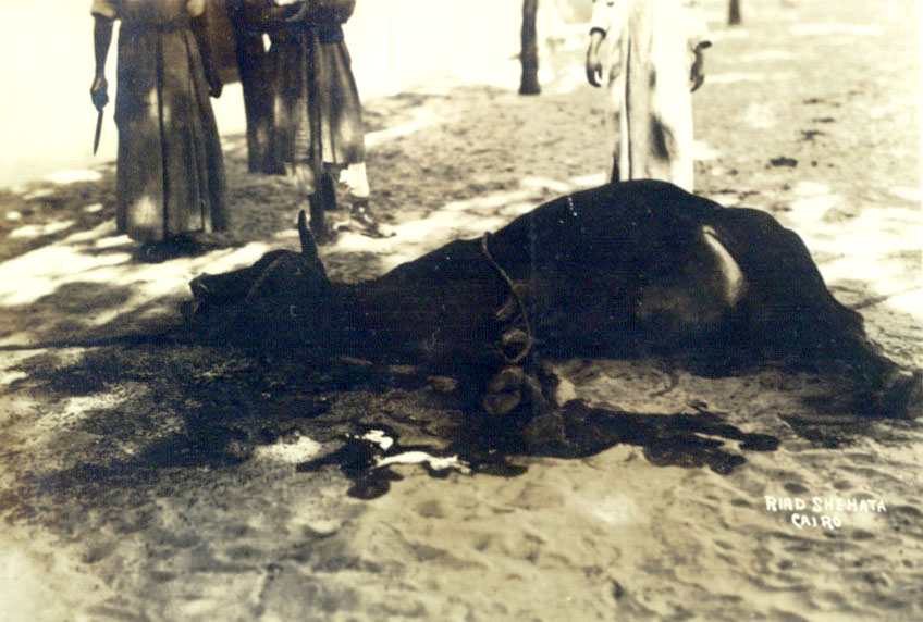 Opening ceremony of the Luxor-Aswan rail line 1926